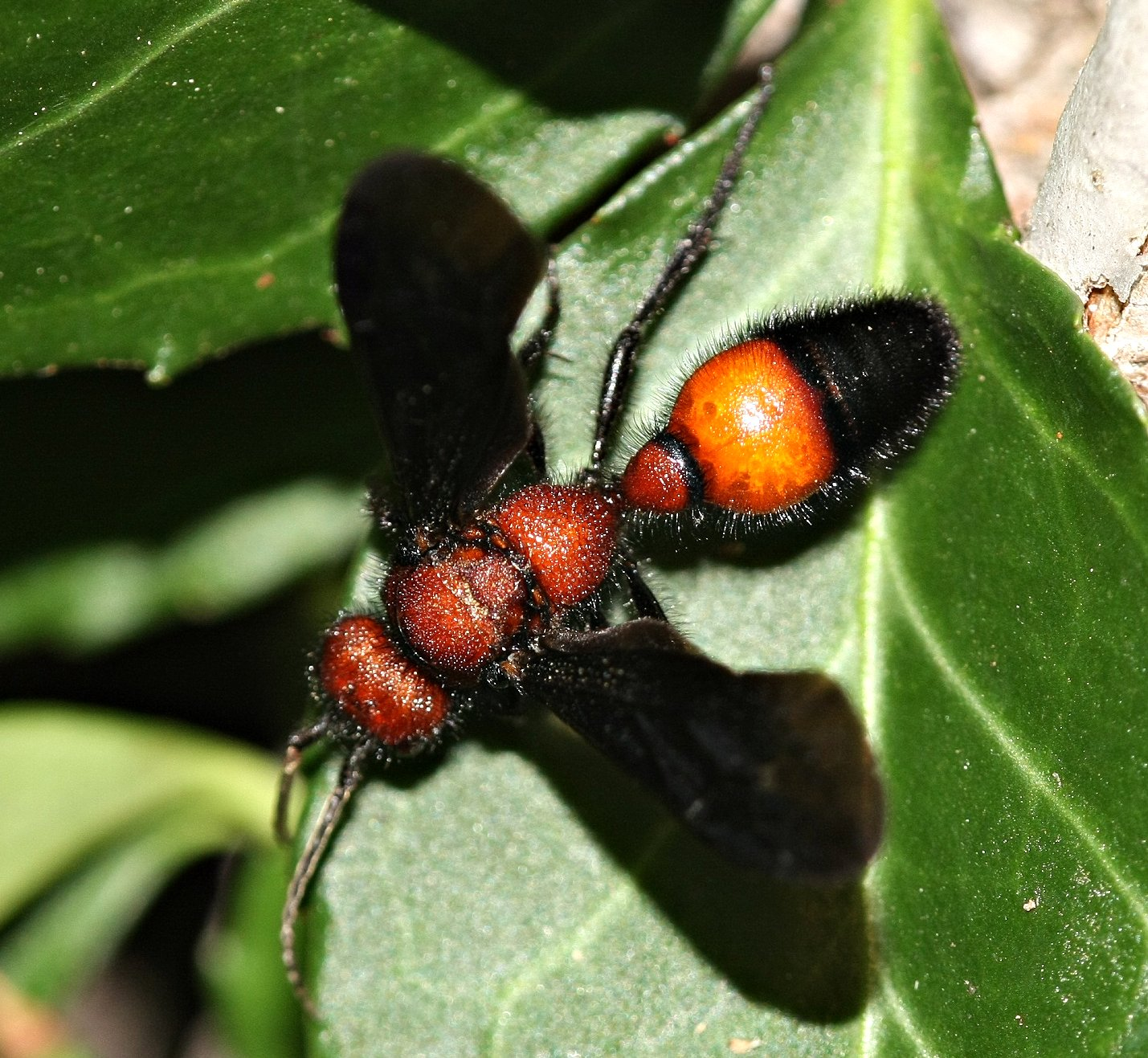 I believe this is a male velvet ant. Unlike the female, the male has wings and flies. They move very fast!